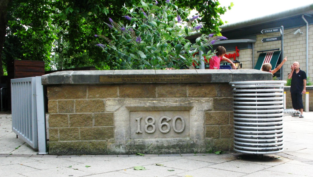 The date stone of Yeovil Town railway station. The station closed in the 1960s but this one small piece remains, now part of a flower bed in the leisure complex that has been built on the site.